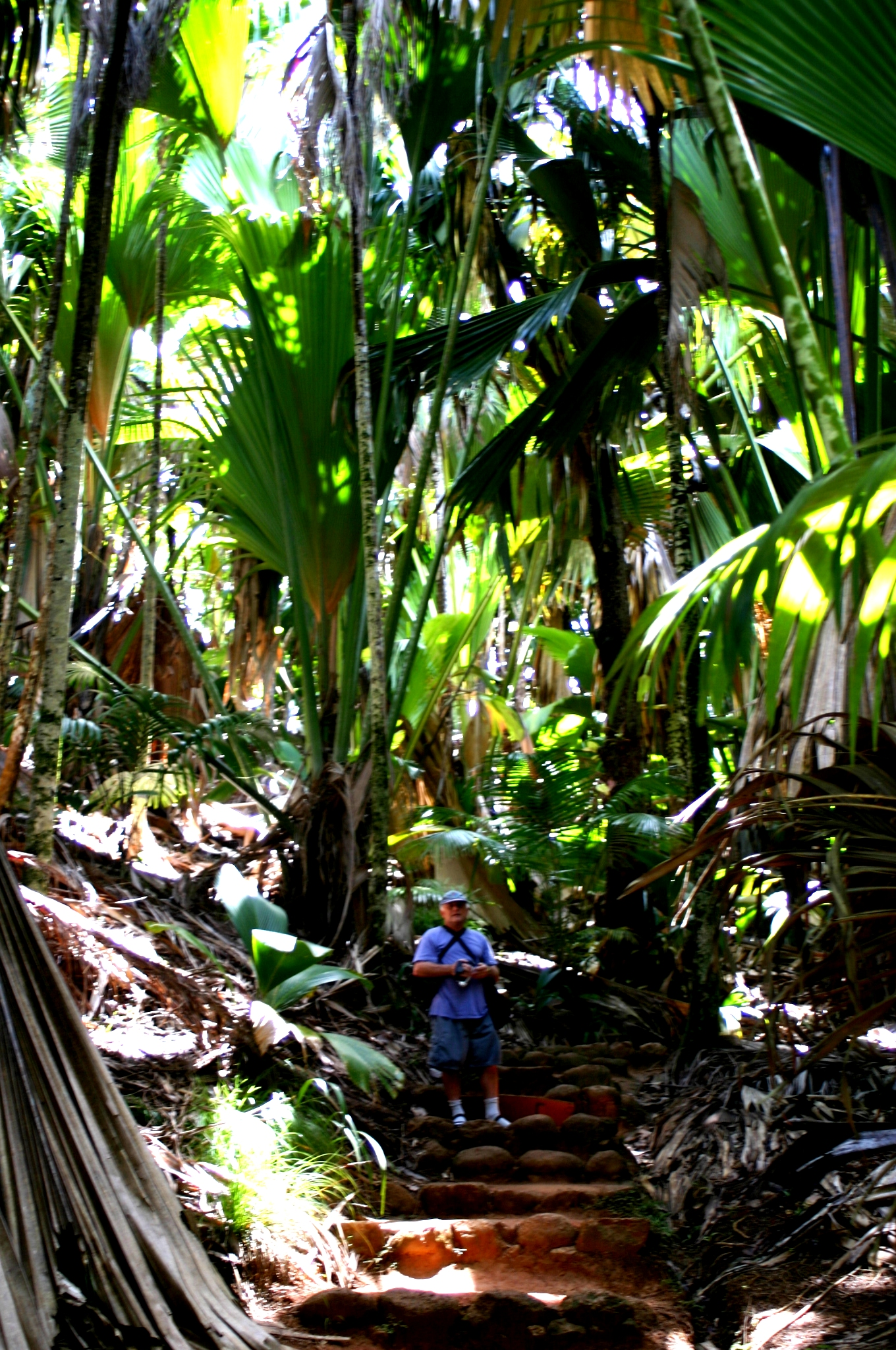 The Vallée De Mai palm forest (the place, where coco-de-mer trees are growing). Photograped by Brocken Inaglory at Praslin, Seychelles